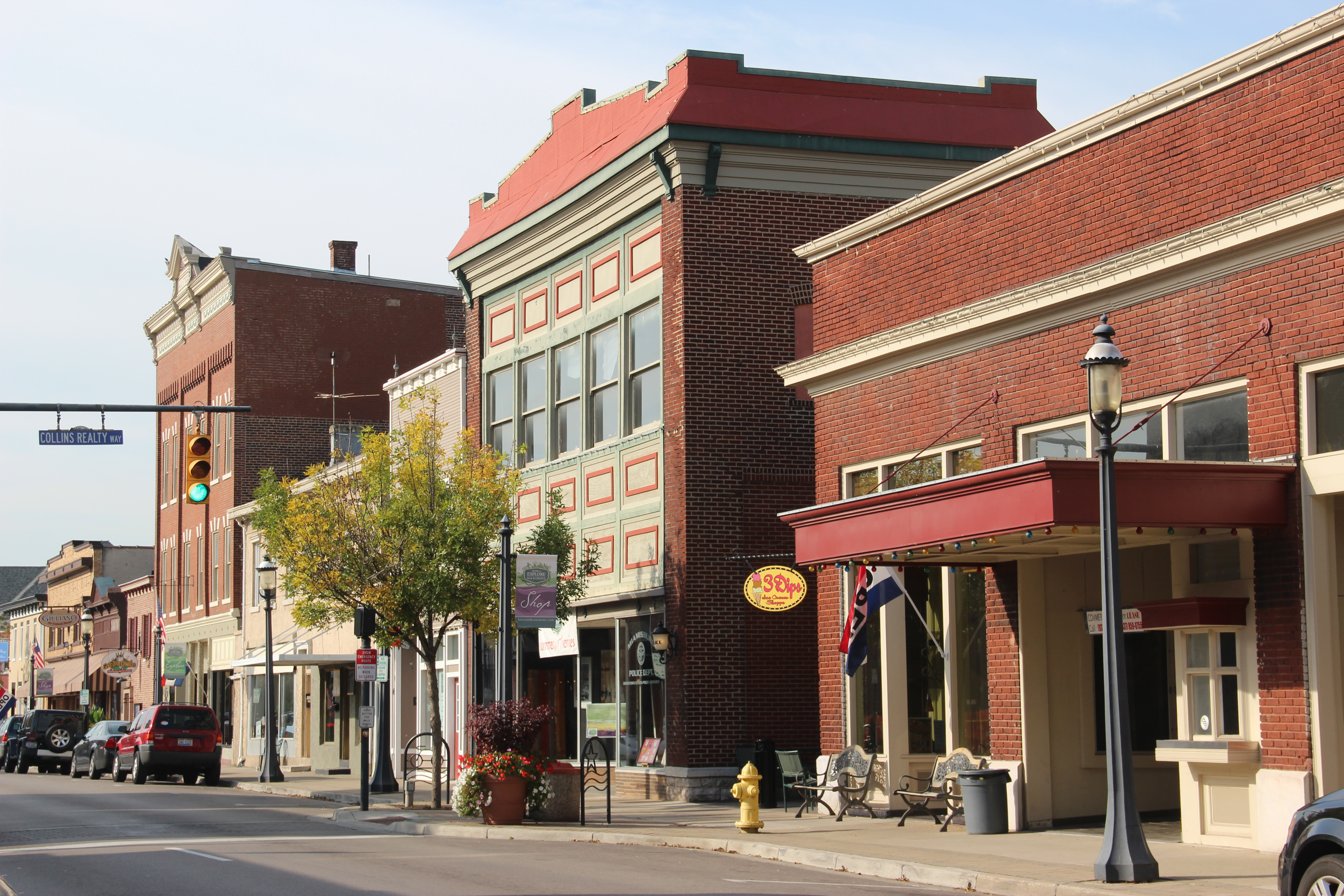 Market Square